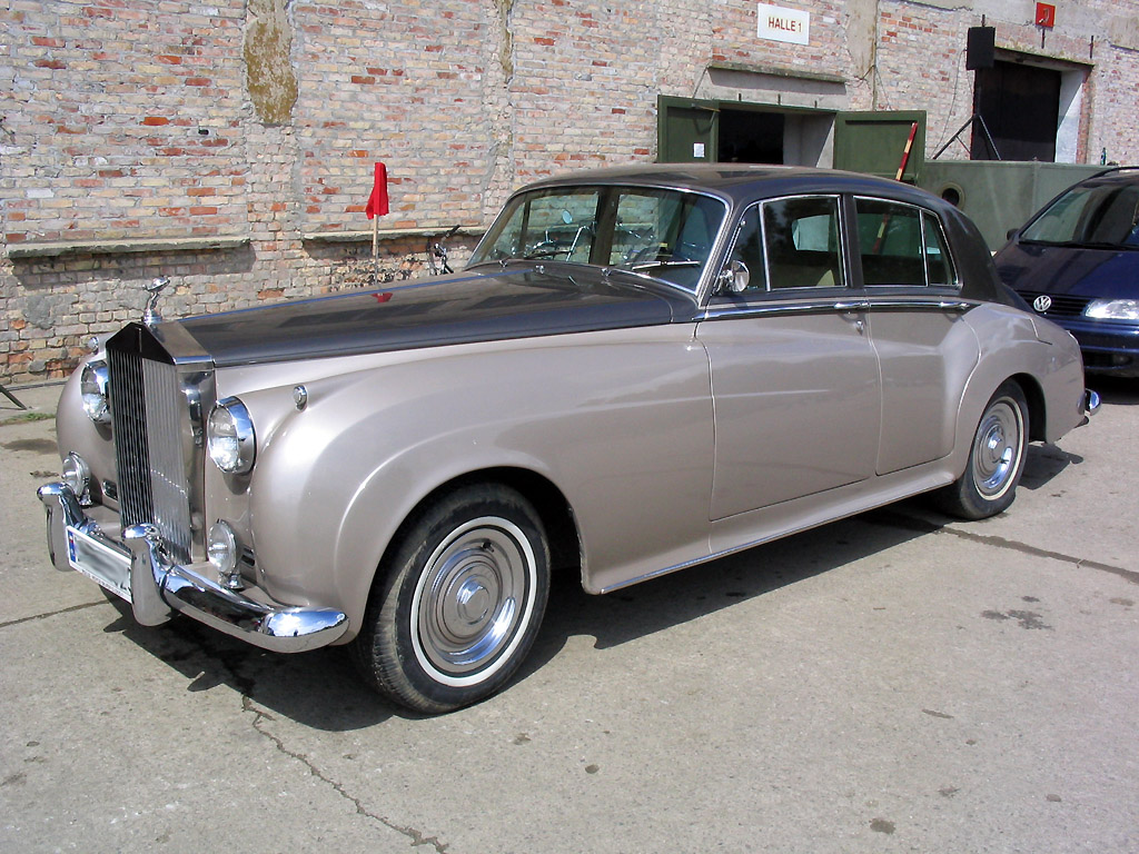 Rolls Royce